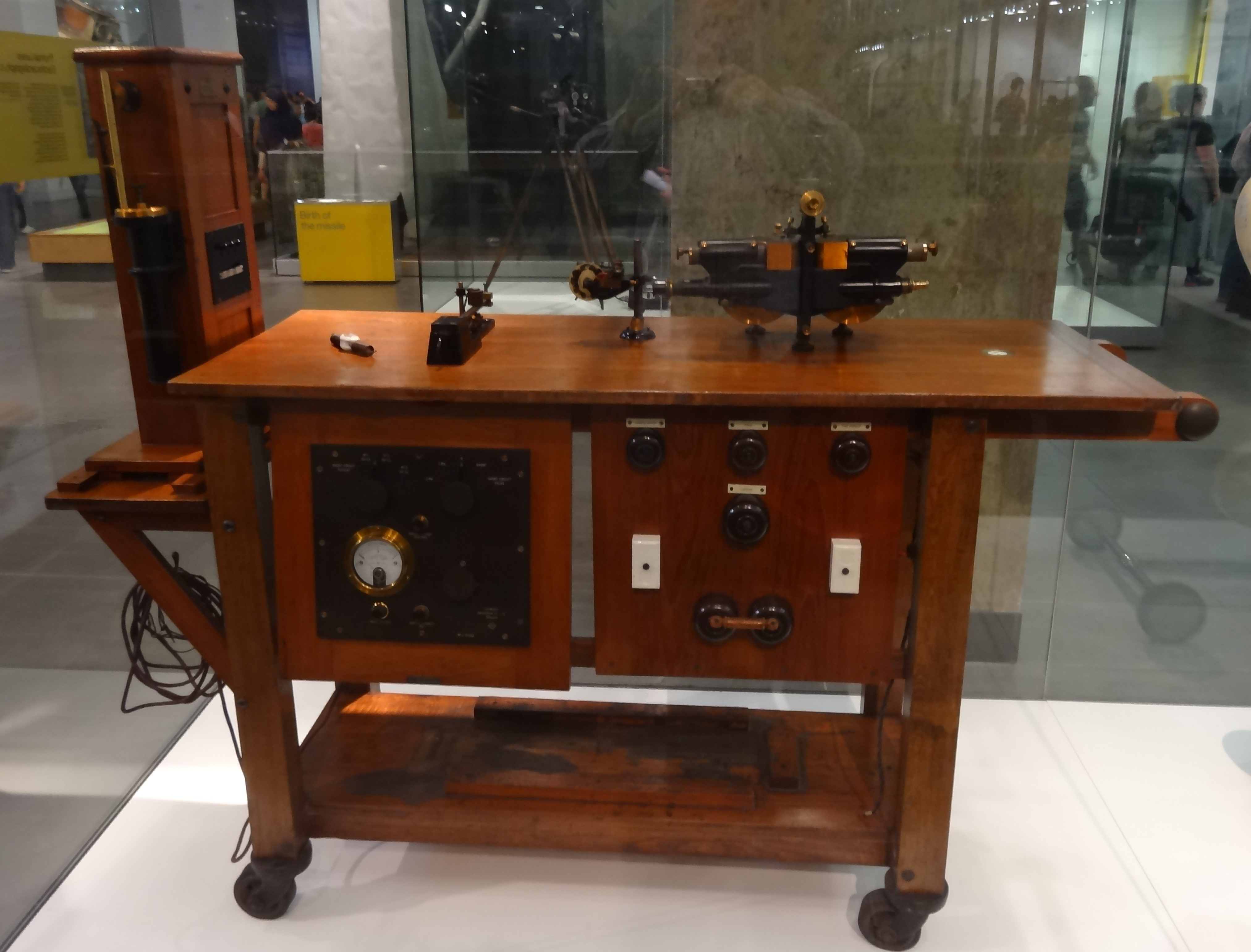 Electrocardiograph circa 1930 by Thomas Lewis. With thanks the Science Museum for allowing photography